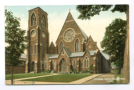 Postcard: Holy Trinity Episcopal Church (Church of the Holy Trinity and Rectory), Middletown, Connecticut, no later than 1910 Description: "Old Divided Back Postcard - Postmarked 1910"